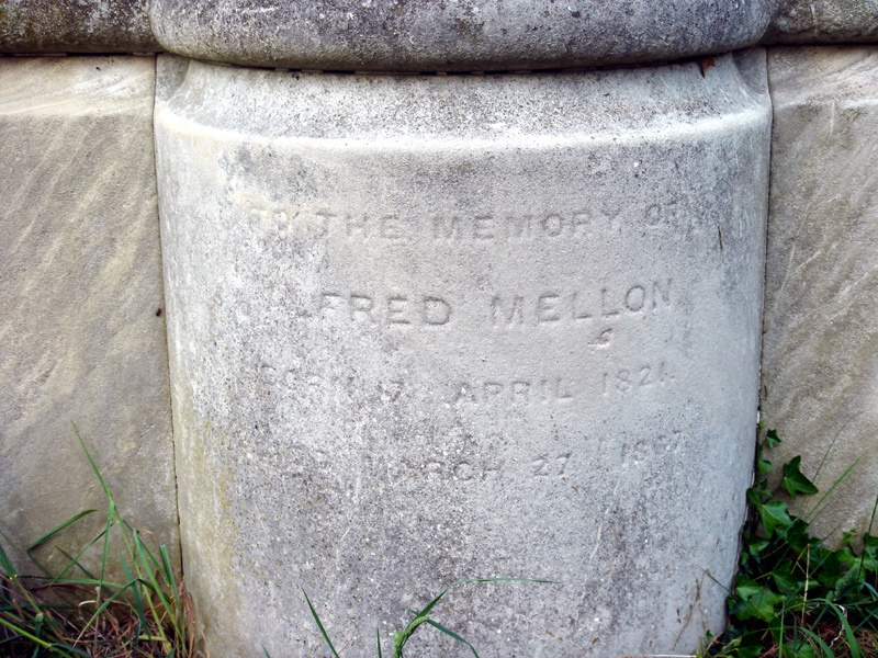 Alfred Mellon funerary monument, Brompton Cemetery, London Wikidata has entry Q27087560 with data related to this item.